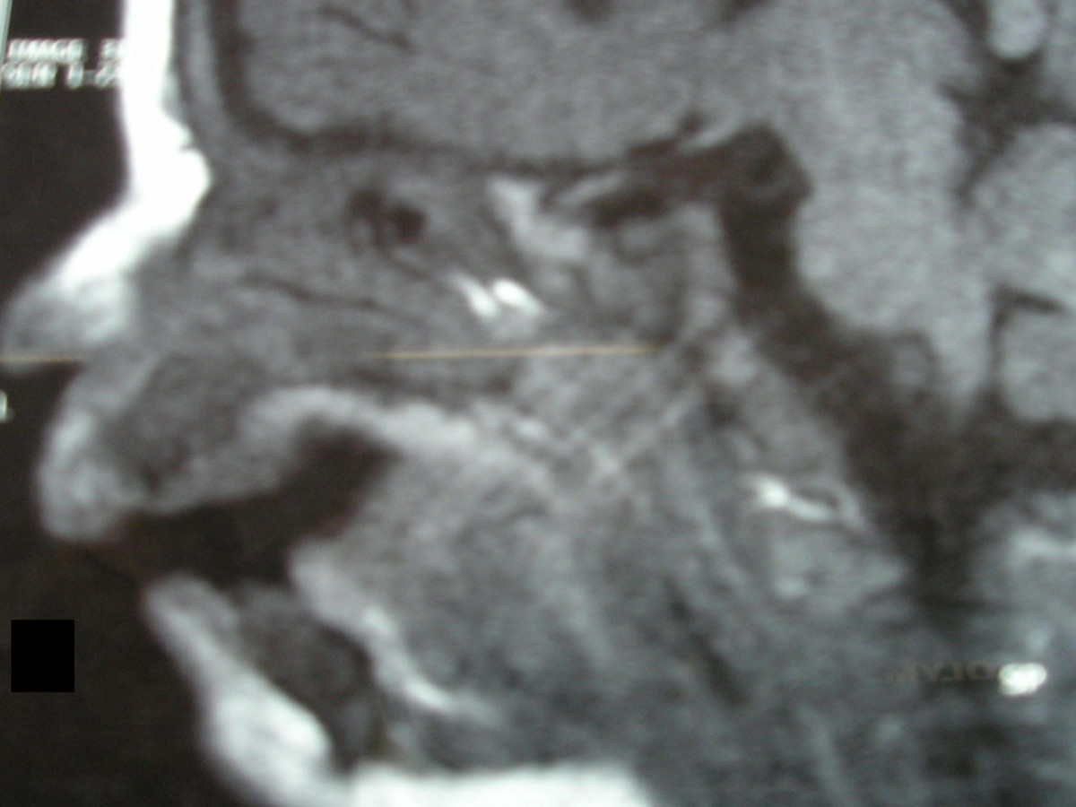 Sagittal MRI imaging, showed markedly hypoplastic tongue in a patient with oromandibular-limb hypogenesis syndrome